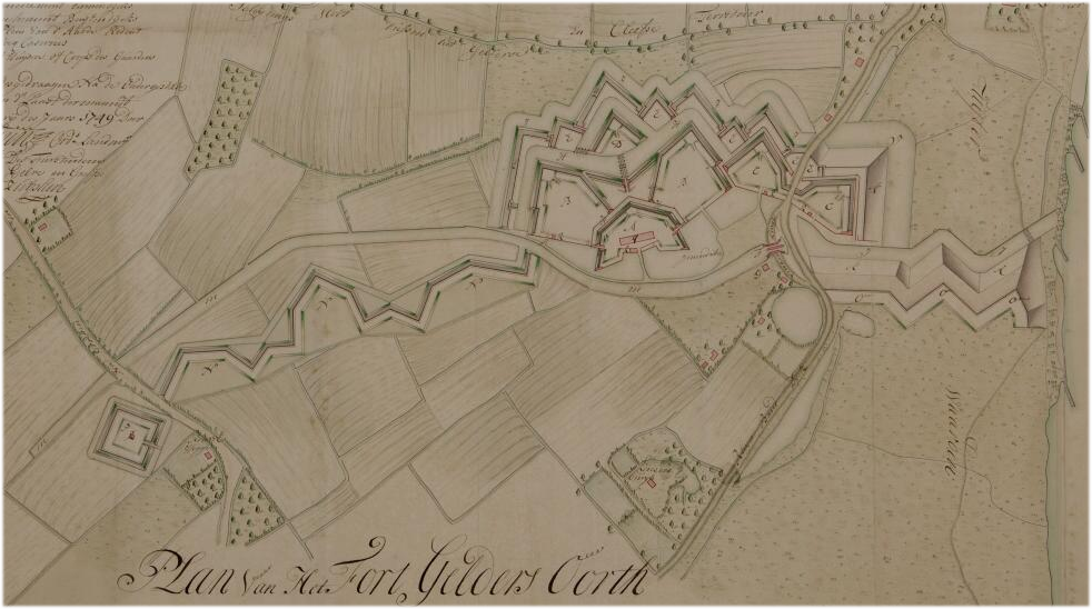 Fort Geldersoord at Westervoort